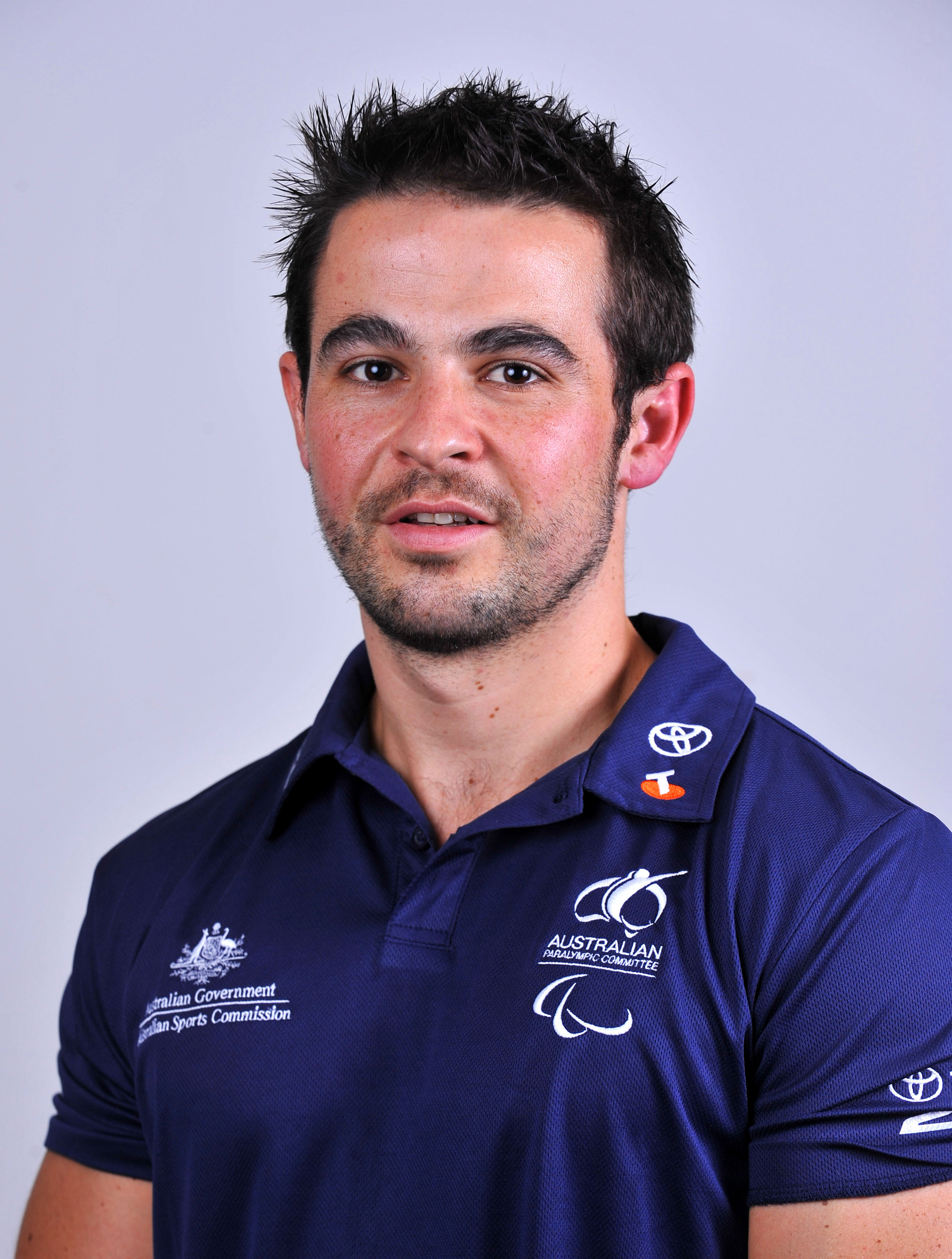 Portrait of Australian wheelchair basketballer Tristan Knowles, 2012 Australian Paralympic (shadow) Team athlete